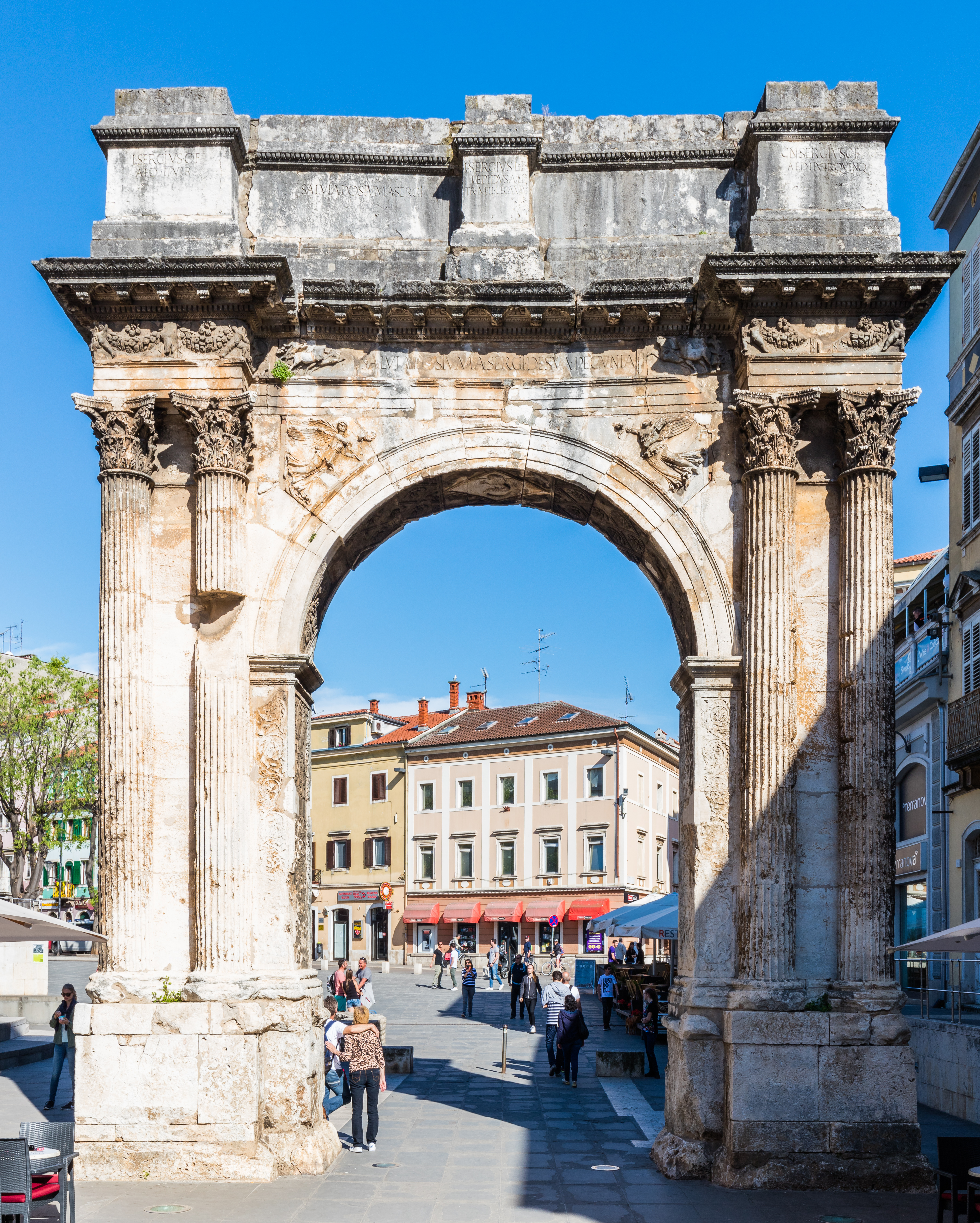 Arch of the Sergii, Pula, Croatia. This is a a photo of a cultural heritage in Croatia with ID: Z-862